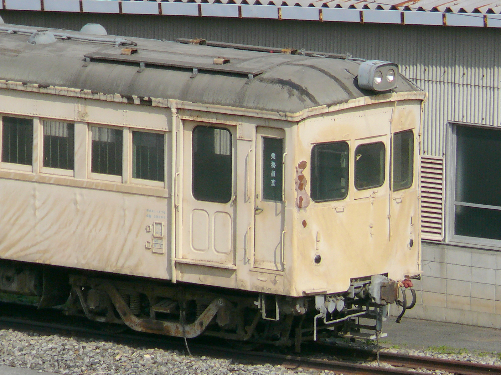 Tobu-Railway Type Moni1470 Train（1471）.